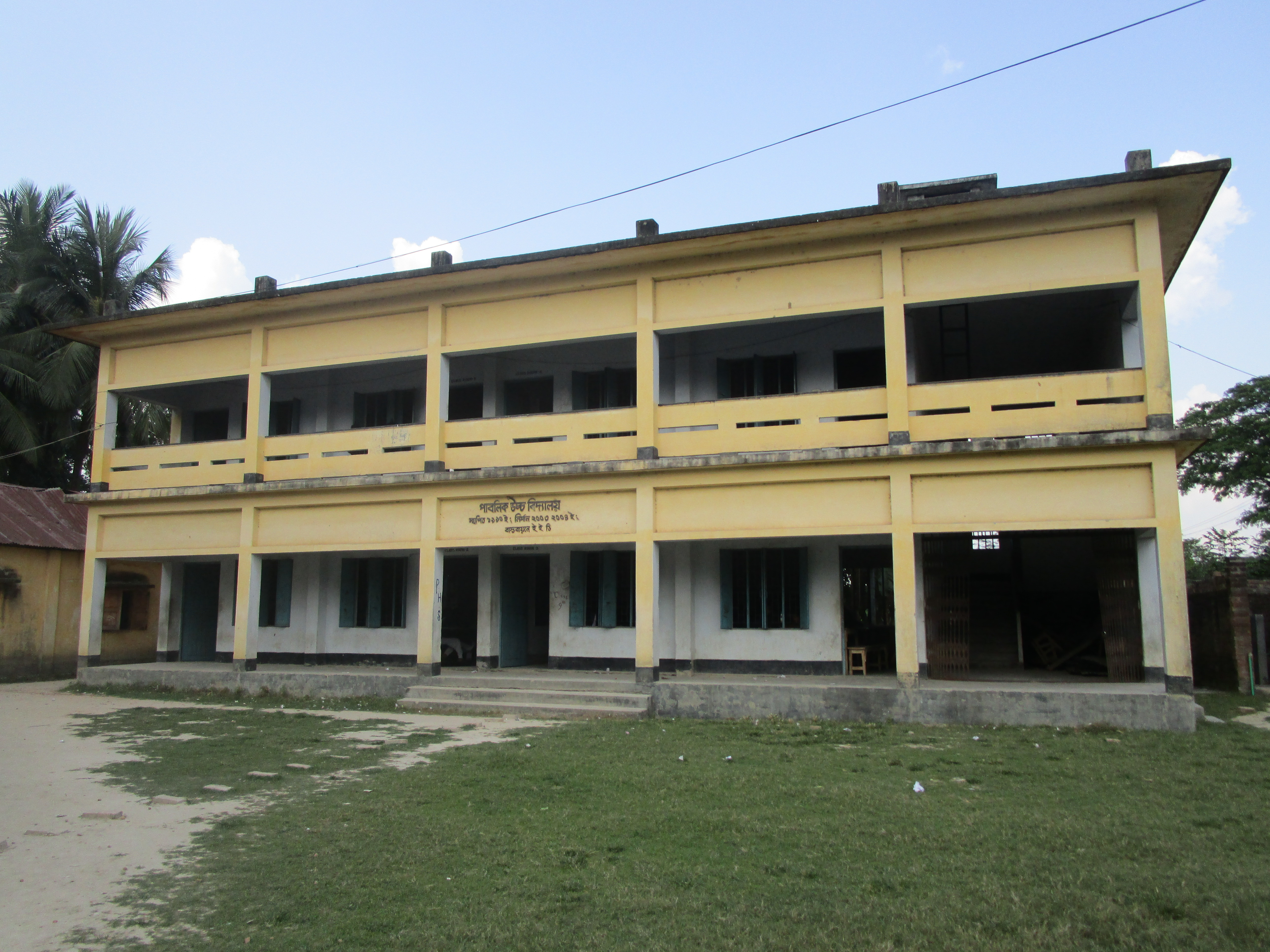 A building of Parbatipur Public High School.